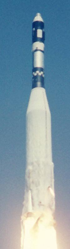 Launch of Atlas SLV-3 Agena D rocket with satellite KH-7 27.